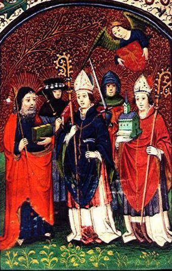 Dutch Book of Prayers from the mid-fifteenth century. Group of five saints. Saint James the Great; Saint Joseph; Saint Ghislain, abbot of St Ghislain, near Mons; Saint Eligius; Saint Ermes (Hermes), with their emblems.